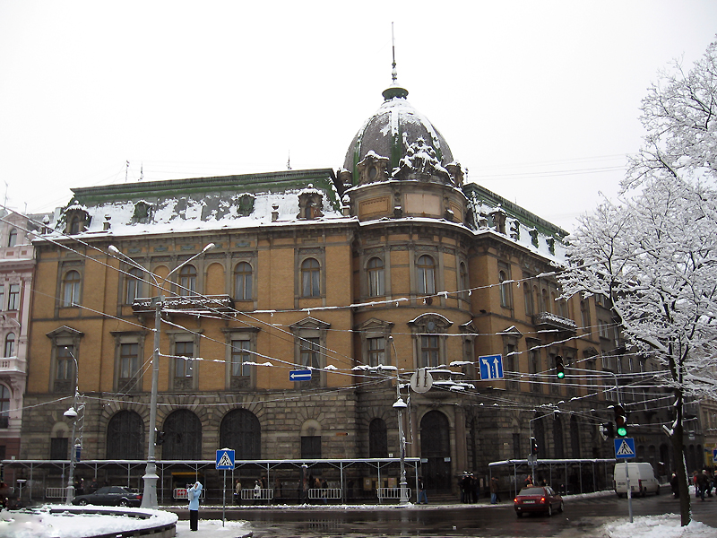 Museum of Ethnography in Lviv, Ukraine.